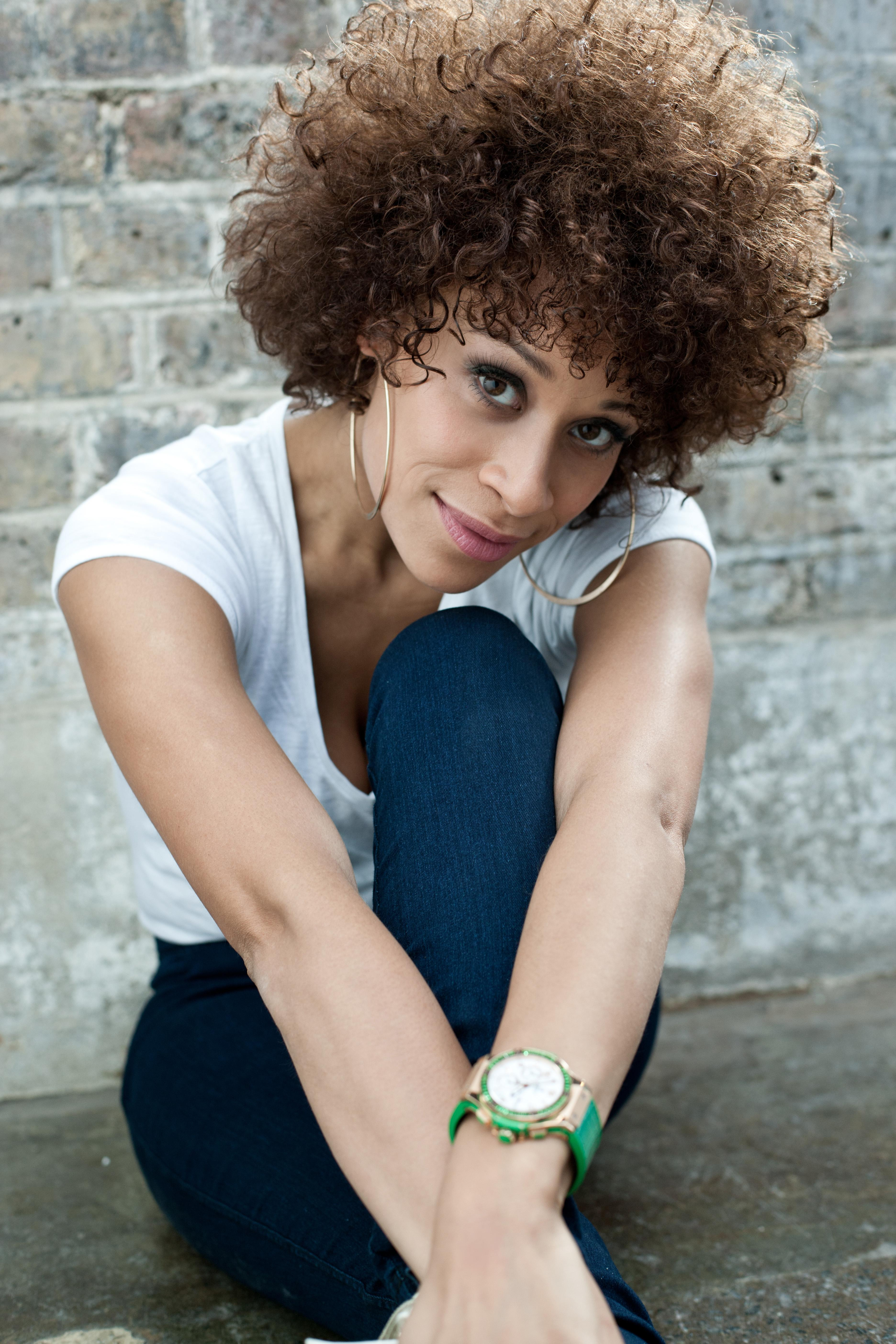 Pressphoto of Oceana 2012